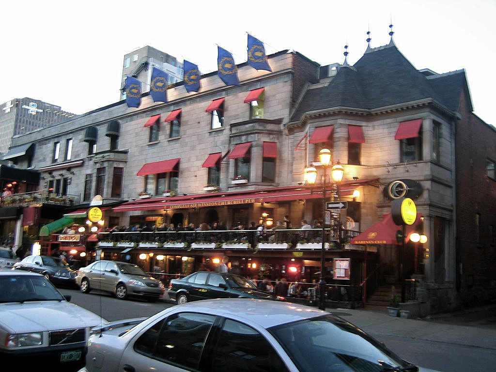 A photo of Sir Winston Churchill pub on downtown Crescent Street.